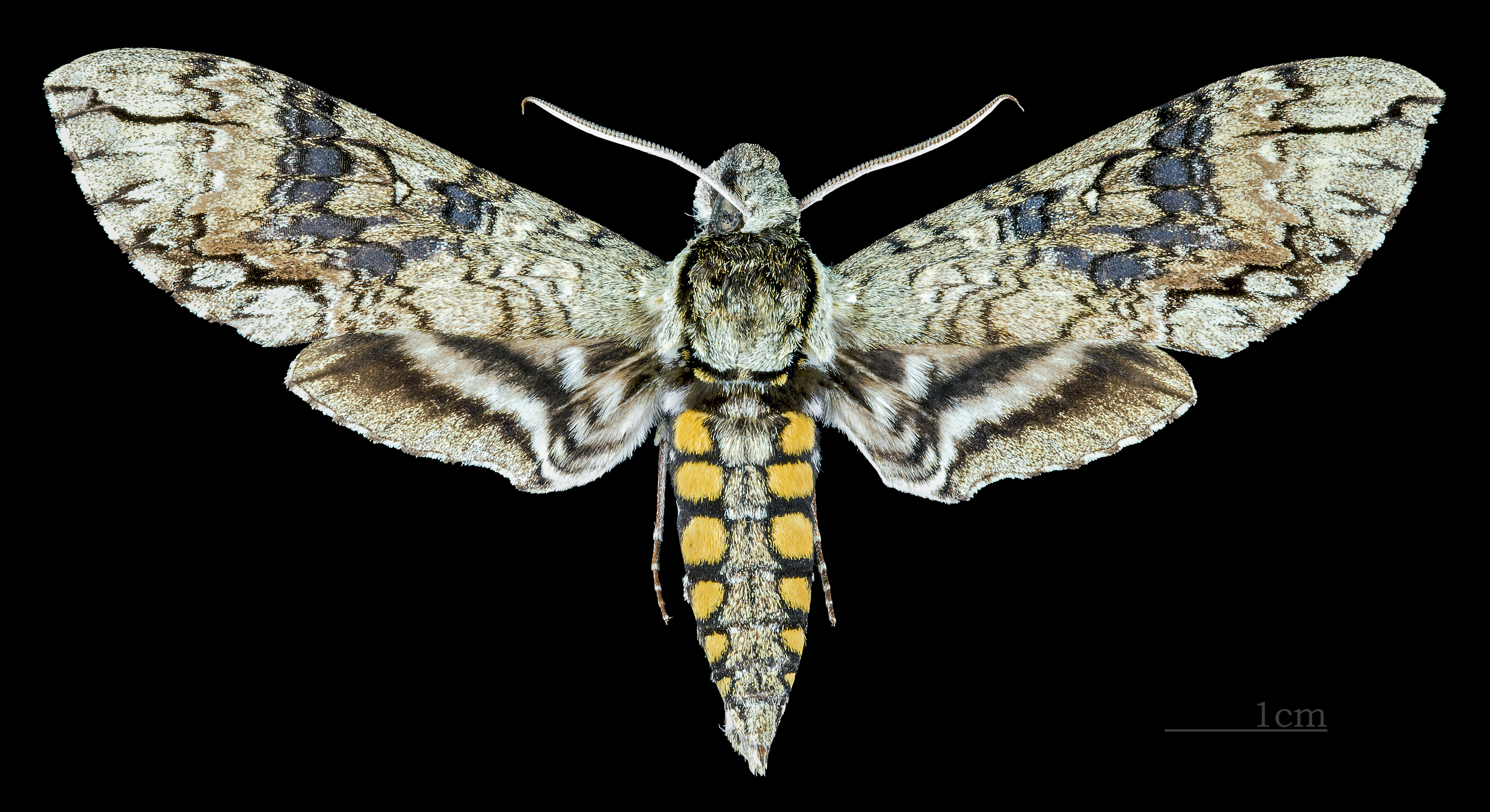 Manduca boliviana - Dorsal side